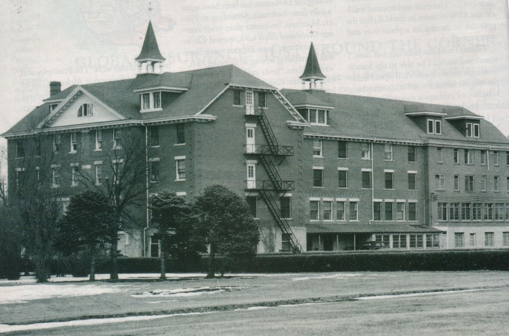 A black and white image of the Michener Centre